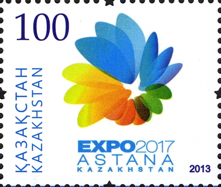 15 Years to Astana